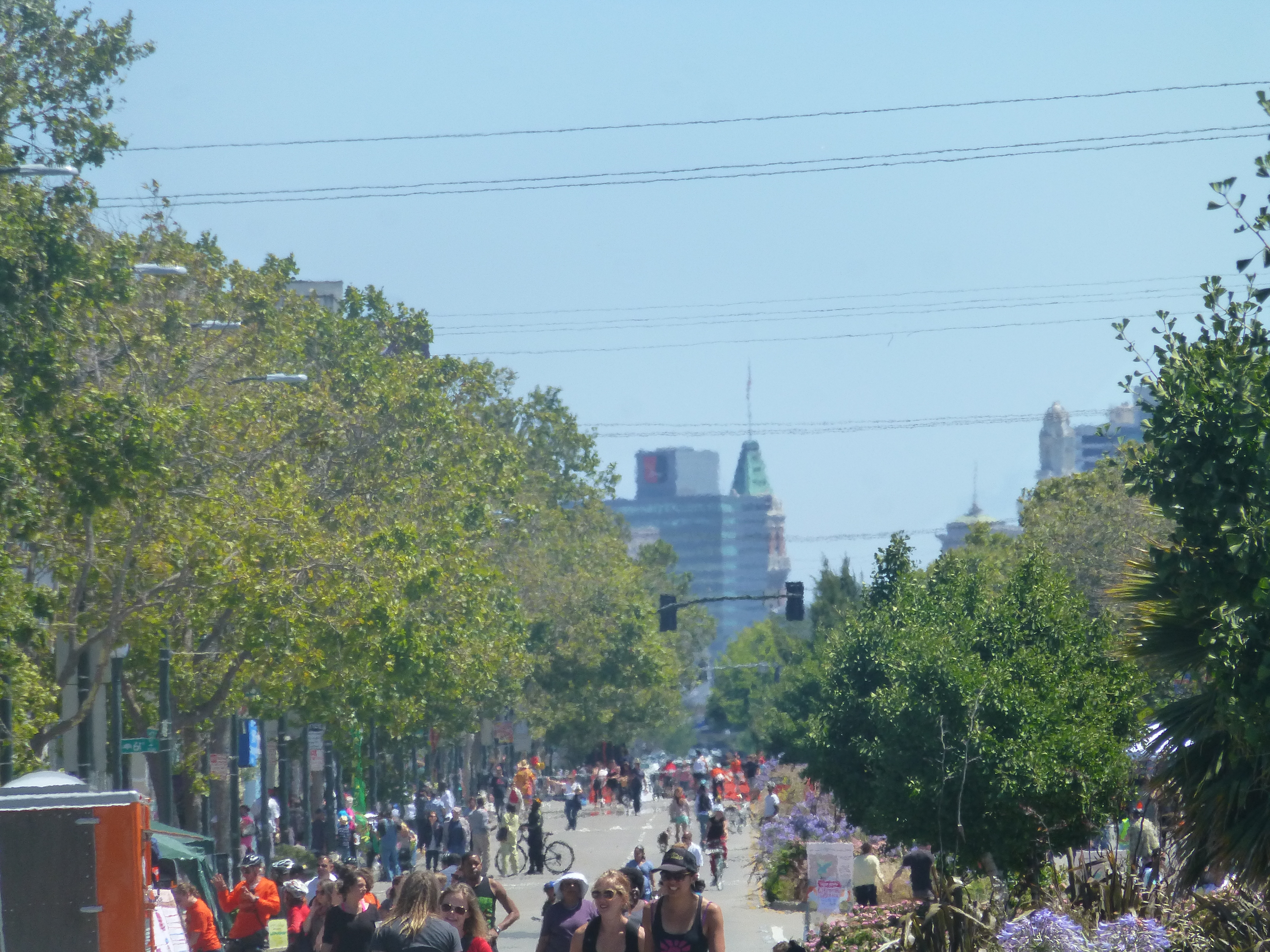 Looking down San Pablo Avenue in Oakland's Golden Gate District toward Downtown Oakland during Oaklavia / Love Our Neighborhood Day 2014, an open streets event.